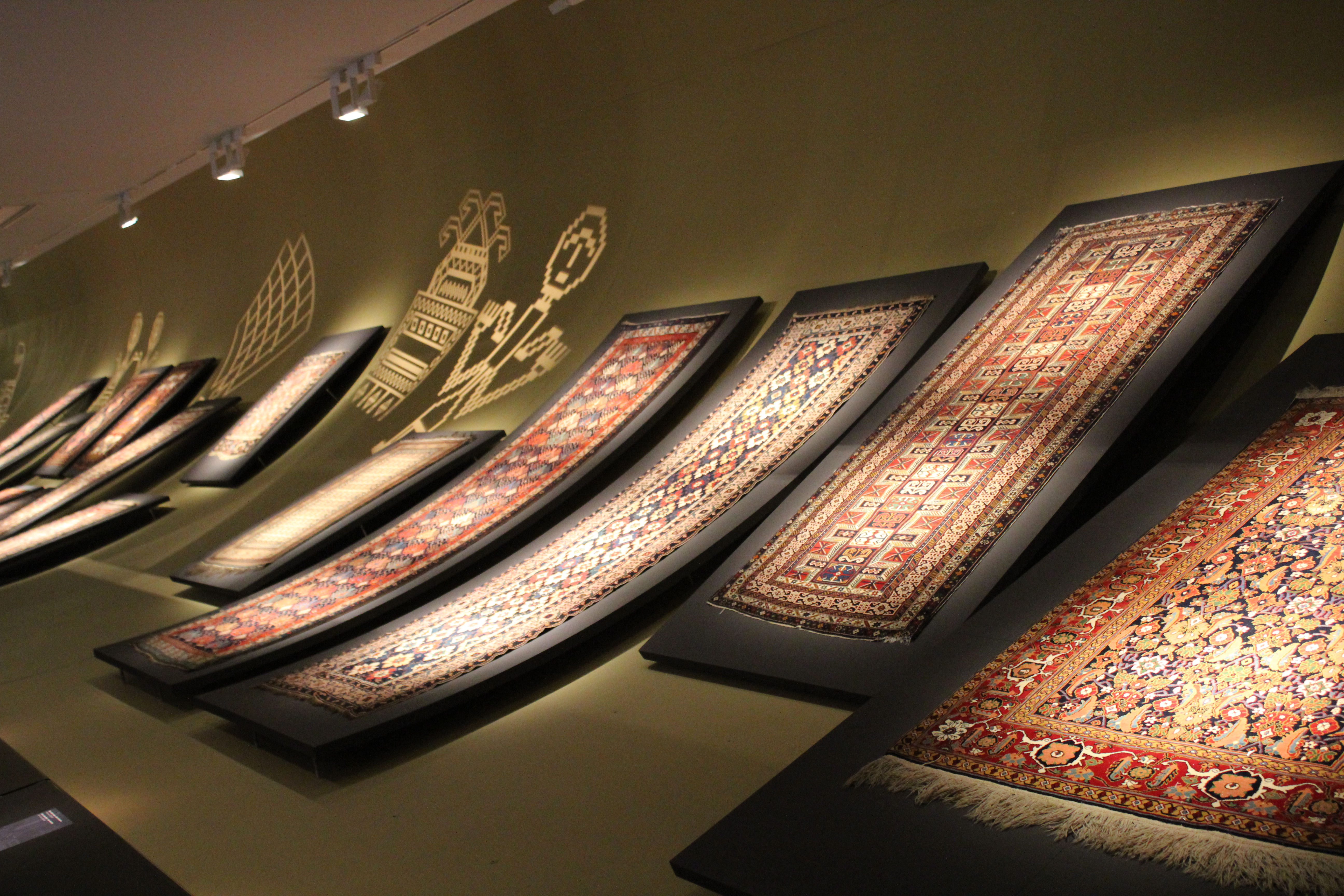 Azerbaijani carpets in Museum of Azerbaijani carpet